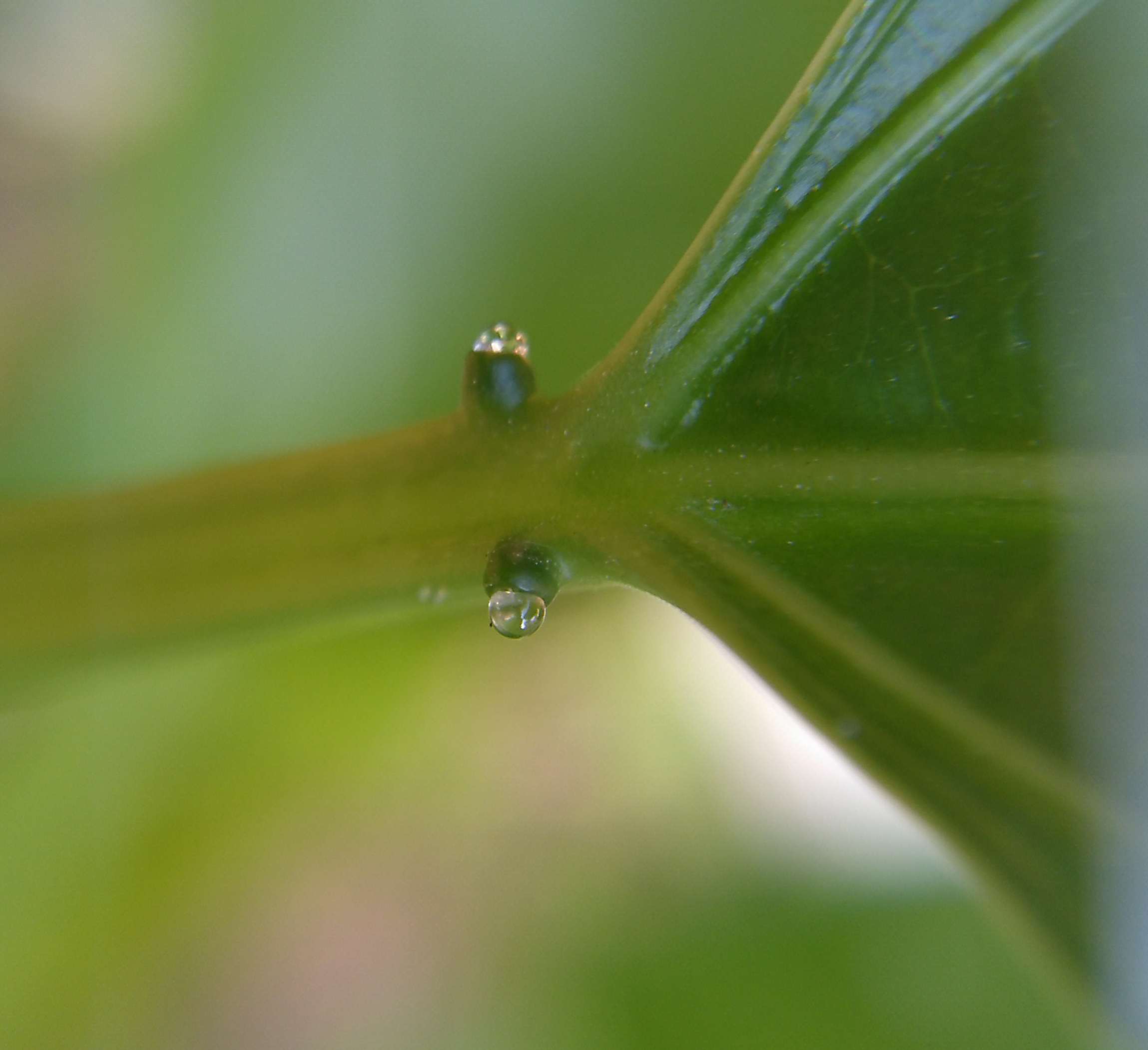 Nectar droplets on the extrafloral nectaries of a Passiflora edulis seedling (maracuja).